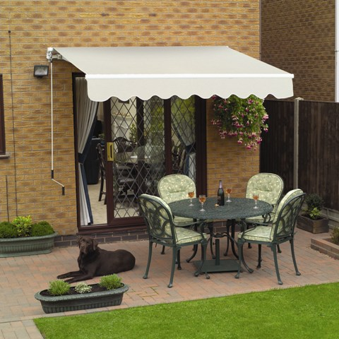 Example of a patio awning, with a polyester cover